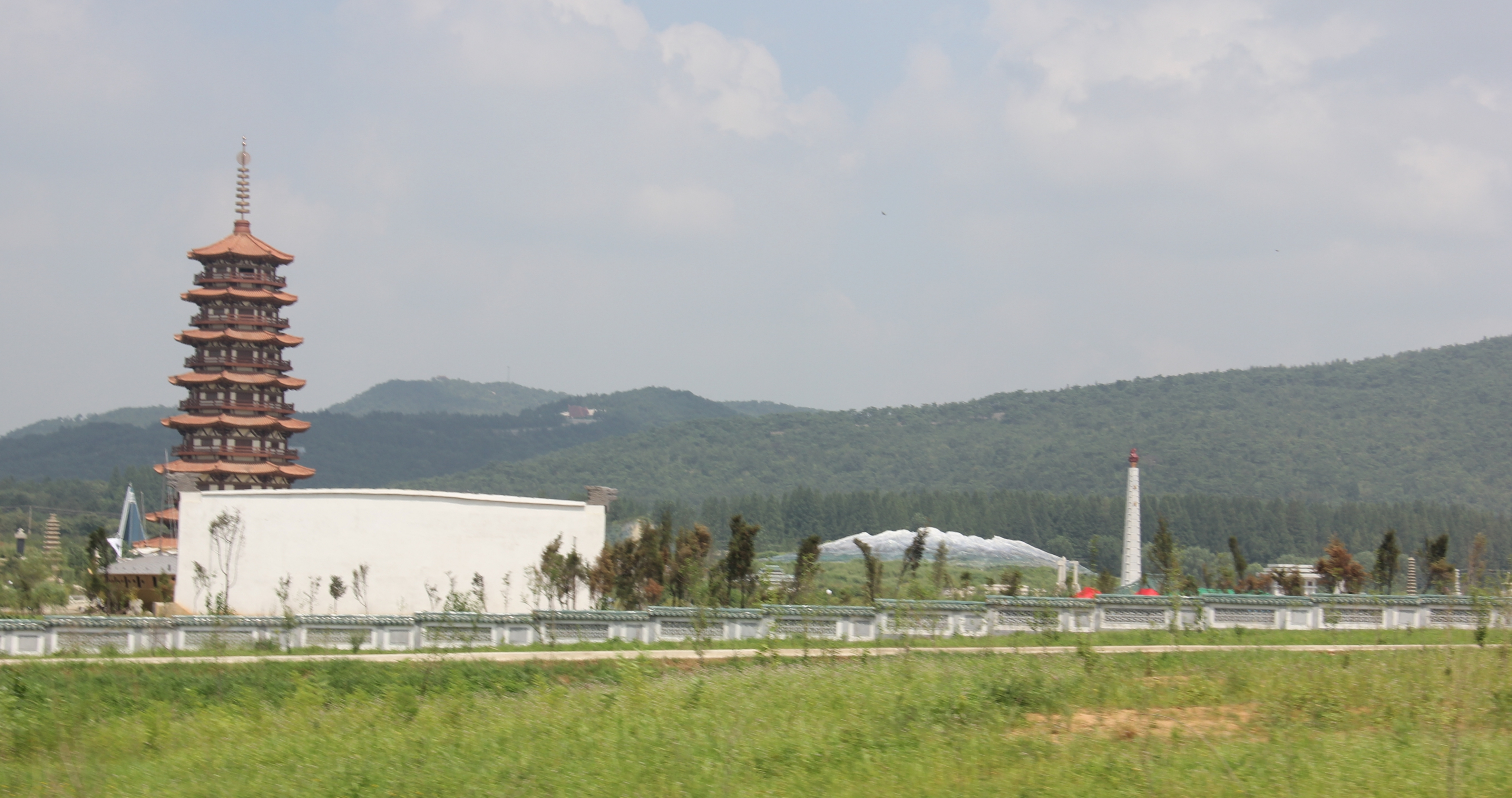 Everything in miniature. It opened a couple of weeks after this was taken.